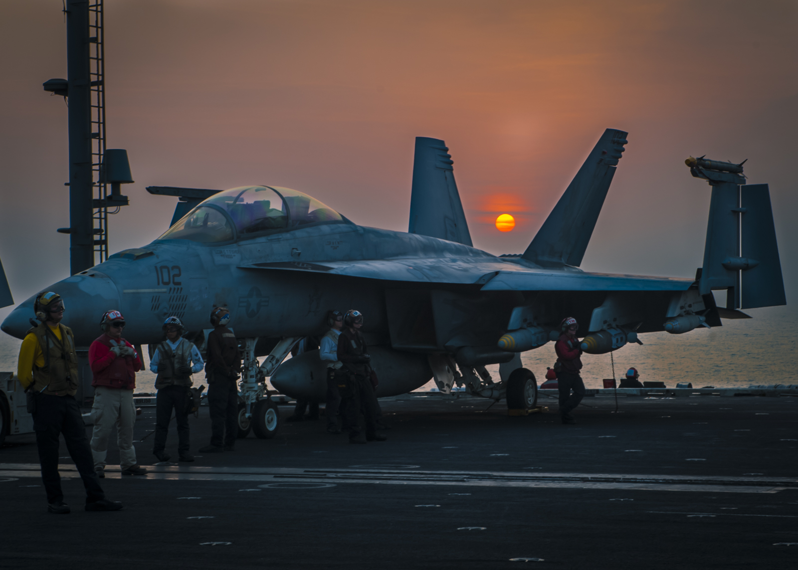 U.S. Navy sailors observe flight operations on the flight deck of the aircraft carrier USS Carl Vinson (CVN-70) in front of an armed Boeing F/A-18F Super Hornet of Strike Fighter Squadron 22 (VFA-22) "Fighting Redcocks". VFA-22 was assigned to Carrier Air Wing 17 (CVW-17) aboard the Carl Vinson for a deployment to the U.S. 5th Fleet Area of responsibility supporting maritime security operations, strike operations in Iraq and Syria as directed, and theater security cooperation efforts, beginning 22 August 2014. Note the mission markers on the Super Hornet.